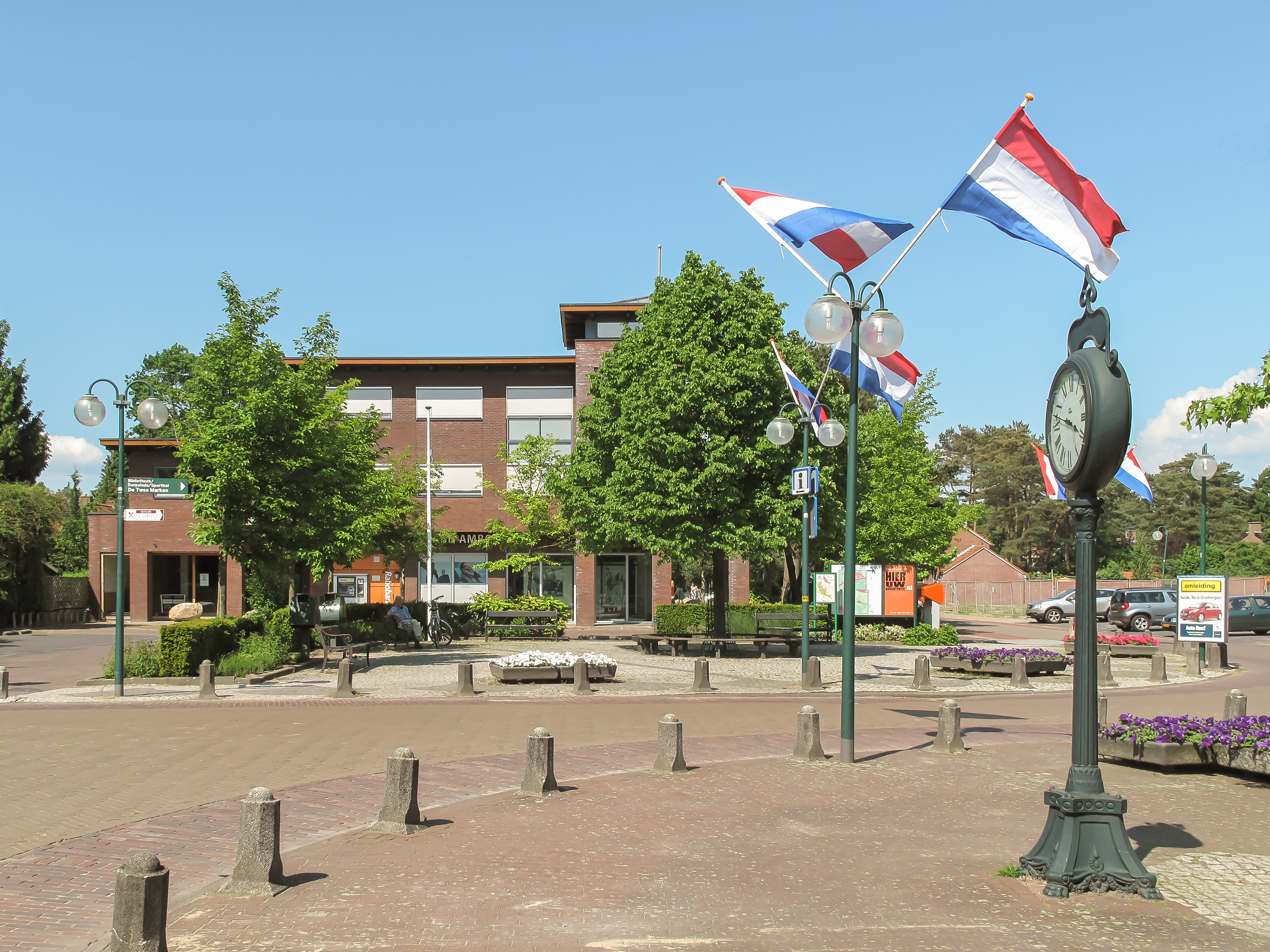 Maarn, viww to a street: het 5 mei-plei